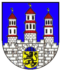 Freiberg coat of arms